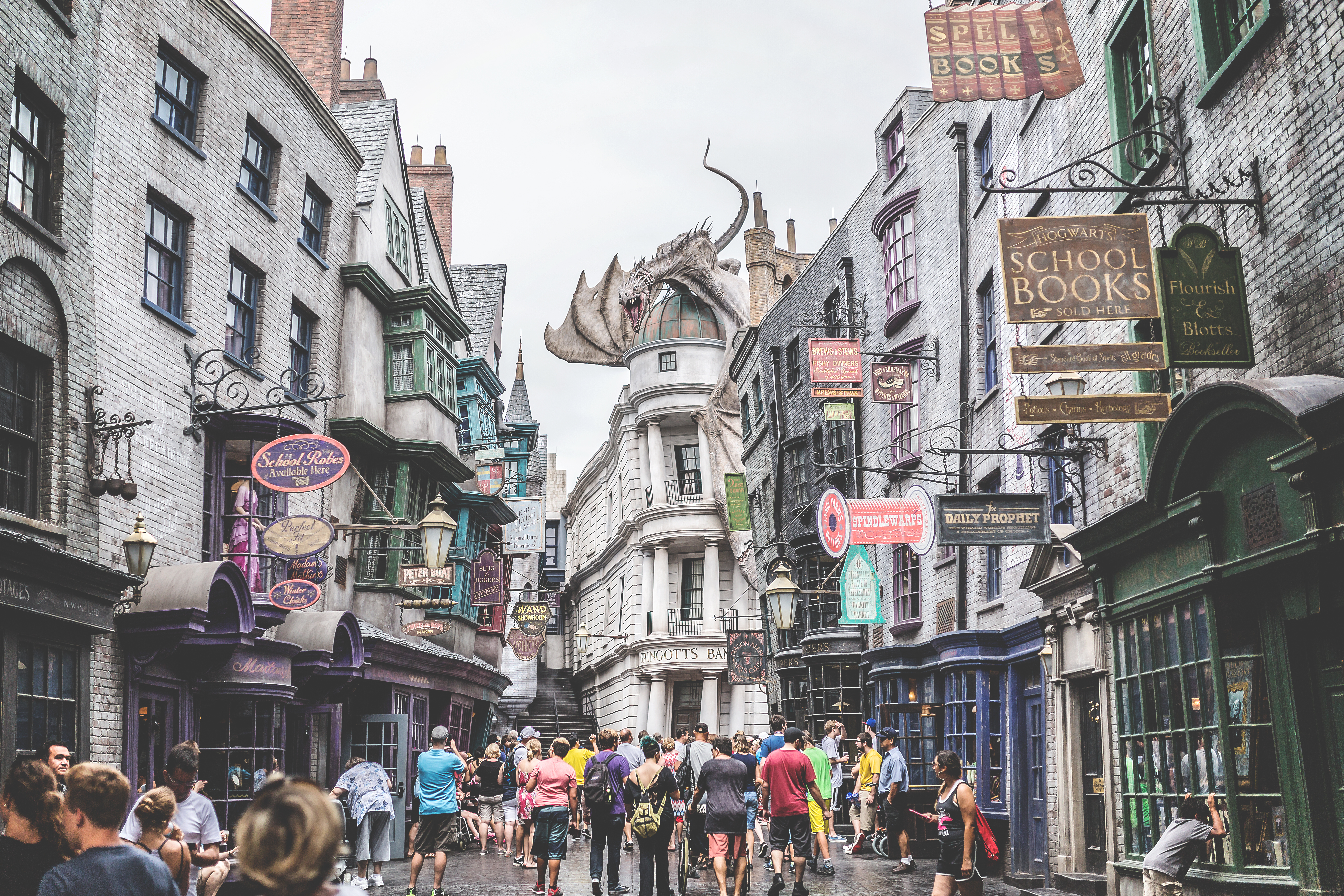 Universal Studios Plaza, Orlando, United States